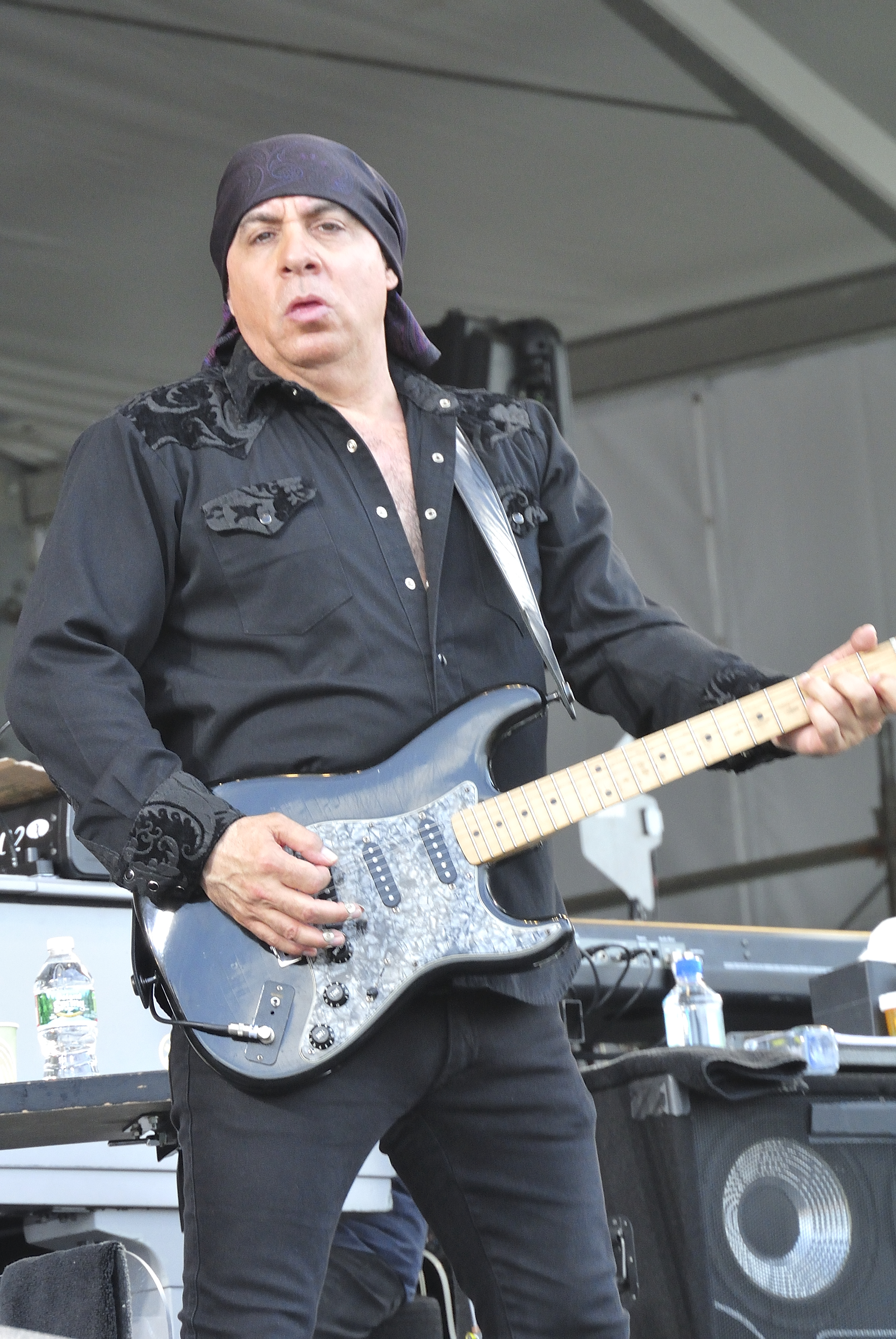 Bruce Springsteen & The E Street Band - New Orleans Jazz & Heritage Festival 2012